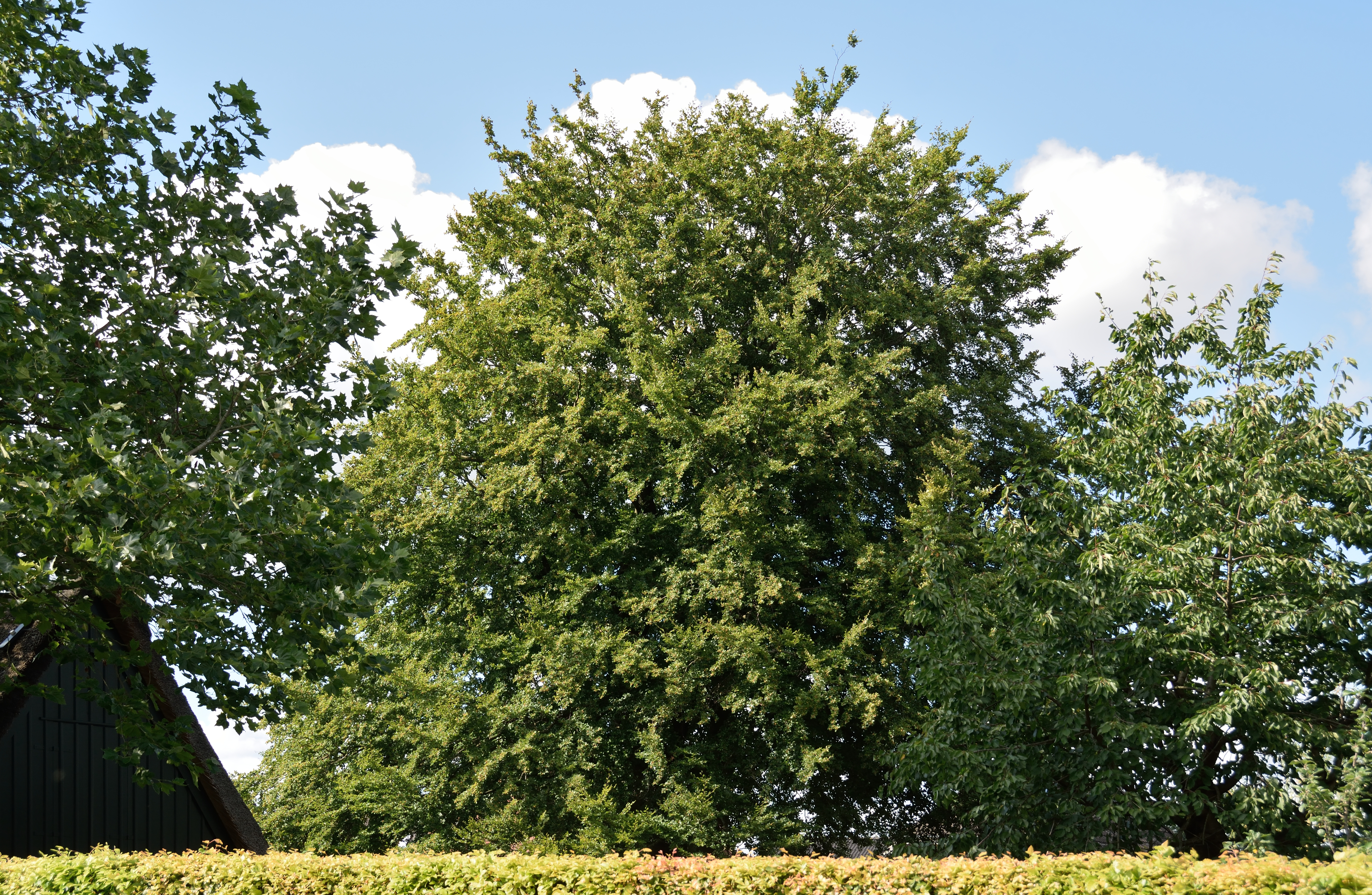 Natural monument (No. 33) in the Steinburg district in Horst.